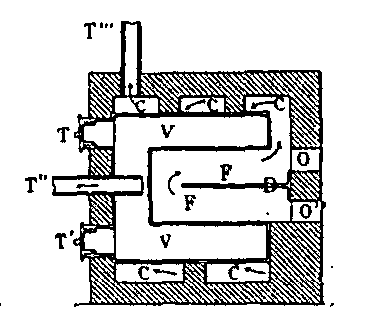 Phlippe Lebon's oven